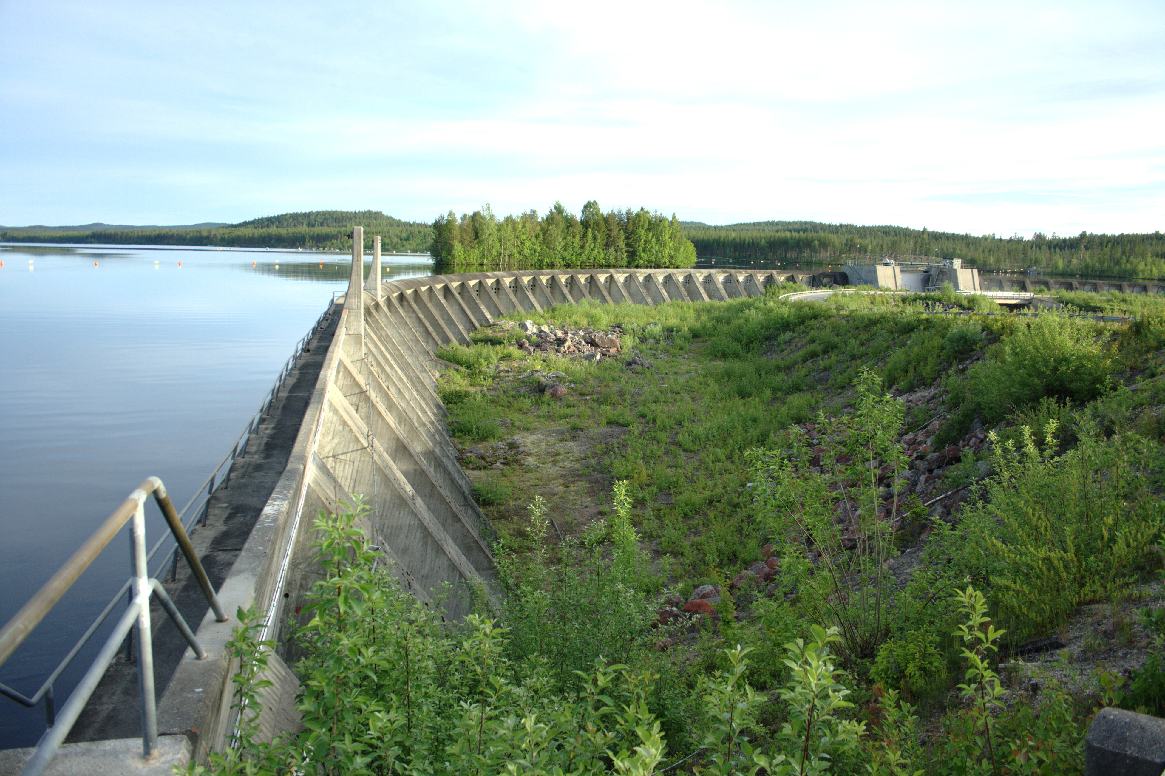 The dam of the Betsele powerplant in Ume river